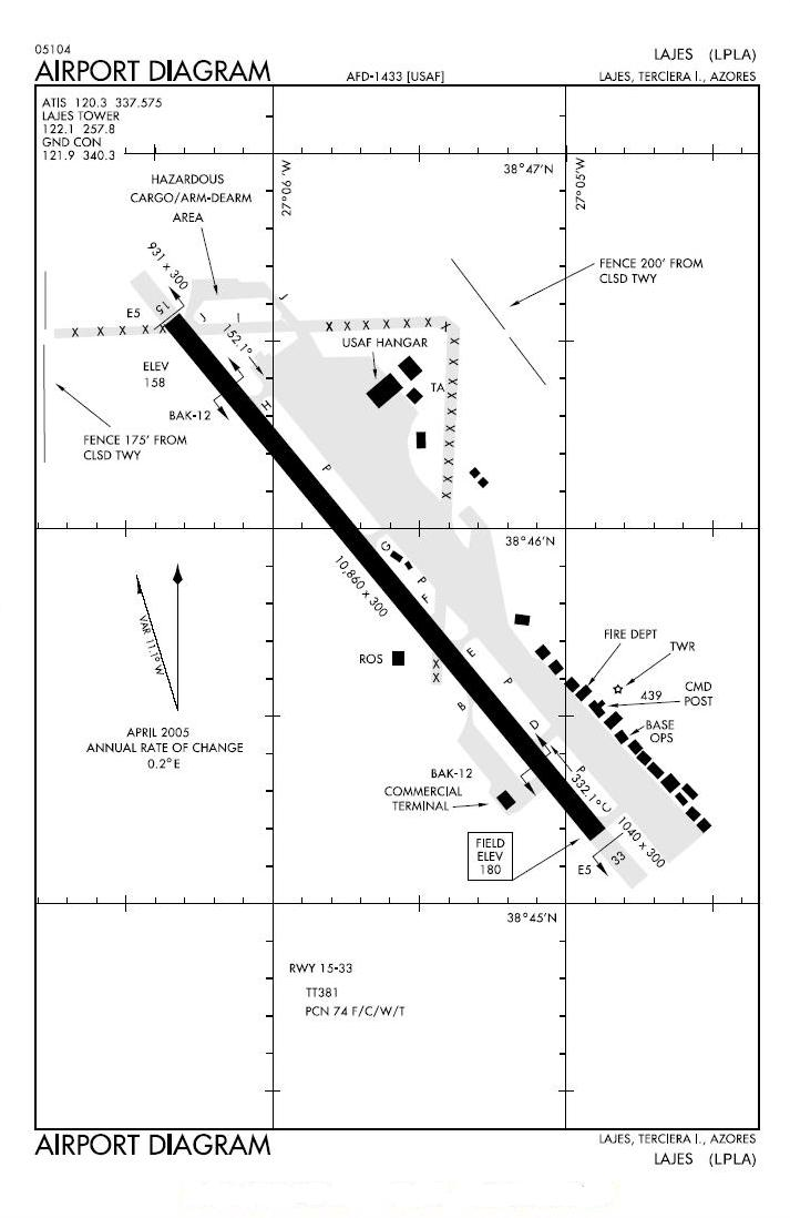 Diagram of Lajes Air Base (LPLA) in Lajes on Terceira Island in the Azores (Portugal).